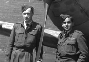 Royal Air Force Fighter Command, 1939-1945. Flight Lieutenant J A Plagis (Rhodesian) and Flying Officer A J Hancock of No. 64 Squadron RAF, standing in front of a Supermarine Spitfire Mark V at Hornchurch, Essex. They had, between them, shot down 16 enemy aircraft in the air battles over Malta in 1941 and 1942.